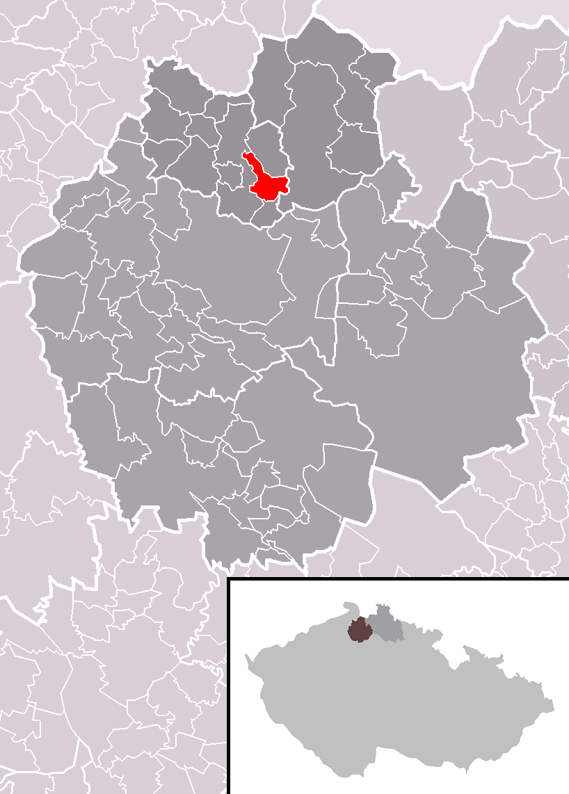 Location of Sloup v Čechách municipality within Česká Lípa District and administrative area of Nový Bor as a Municipality with Extended Competence.